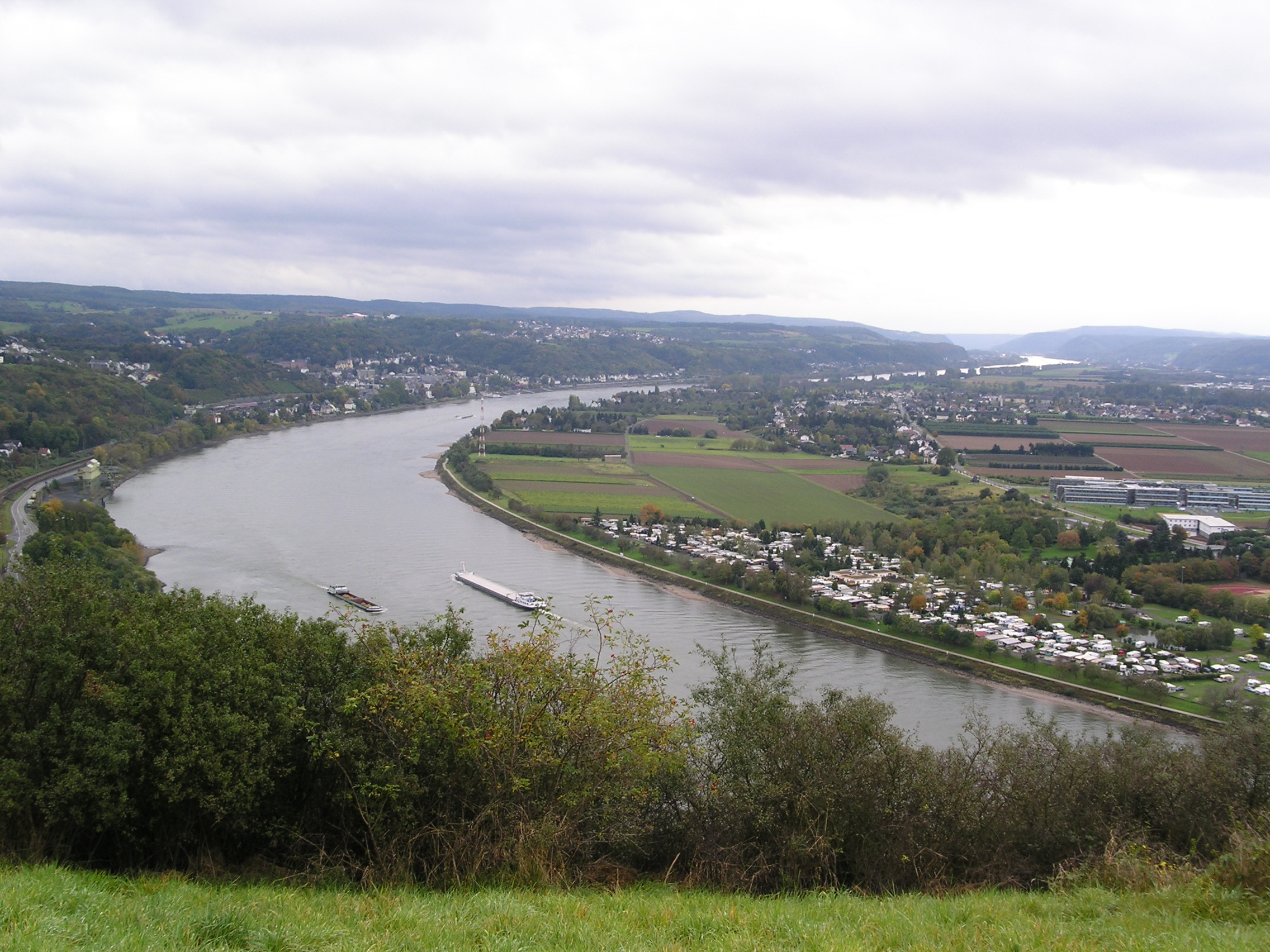 Panoramic view from the Erpeler Ley over the Rhine valley